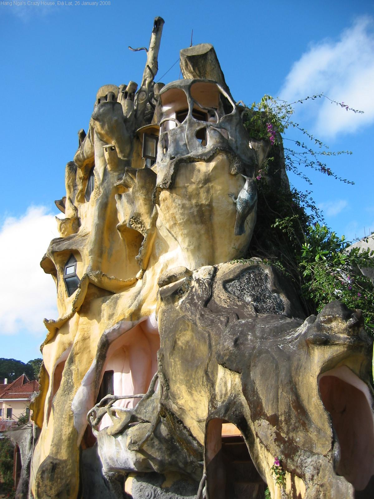 Hang Nga's "Crazy House" in Dalat, Vietnam